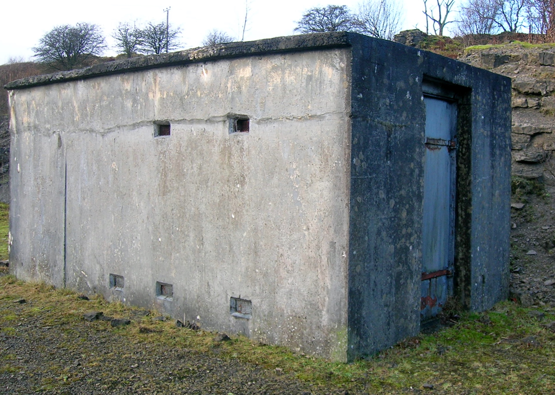 Concrete old Dynamite and Blasting Caps Magazine, Hessilhead Quarries, North Ayrshire, Scotland.